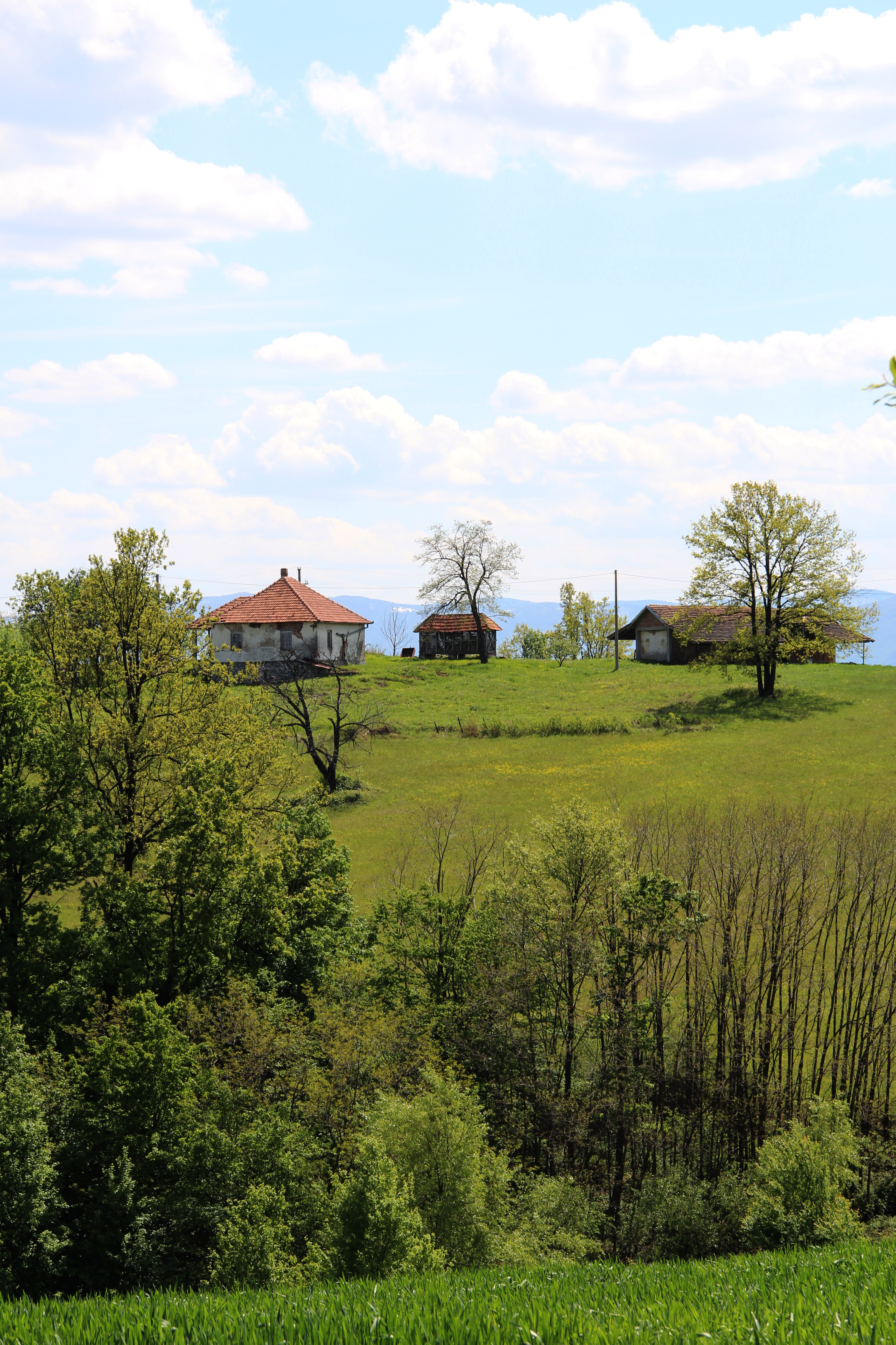 Zabrdica village - Municipality of Valjevo - Western Serbia - Panorama 14